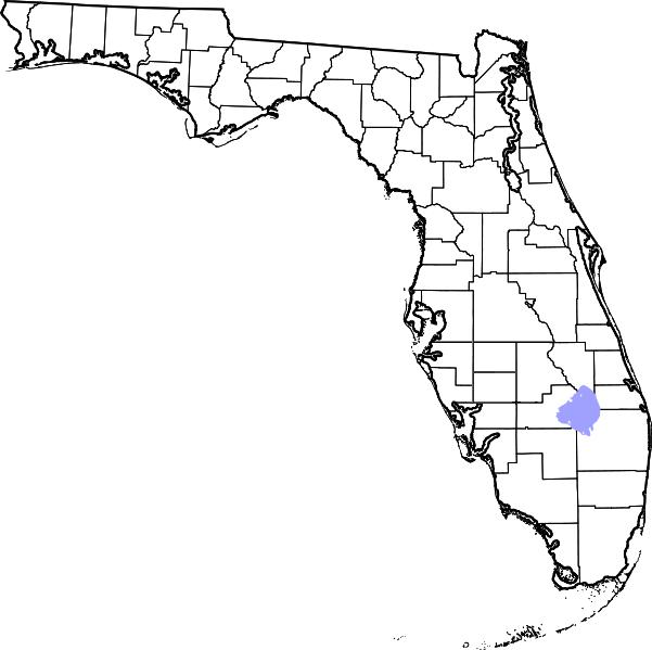 This is a locator map showing all counties, as blank, in the U.S. state of Florida.